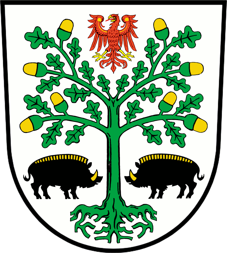 Coat of Arms of city Eberswalde.